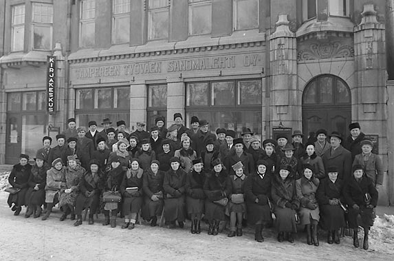 The personel of Kansan Lehti at its 45-year anniversay February 27, 1944.